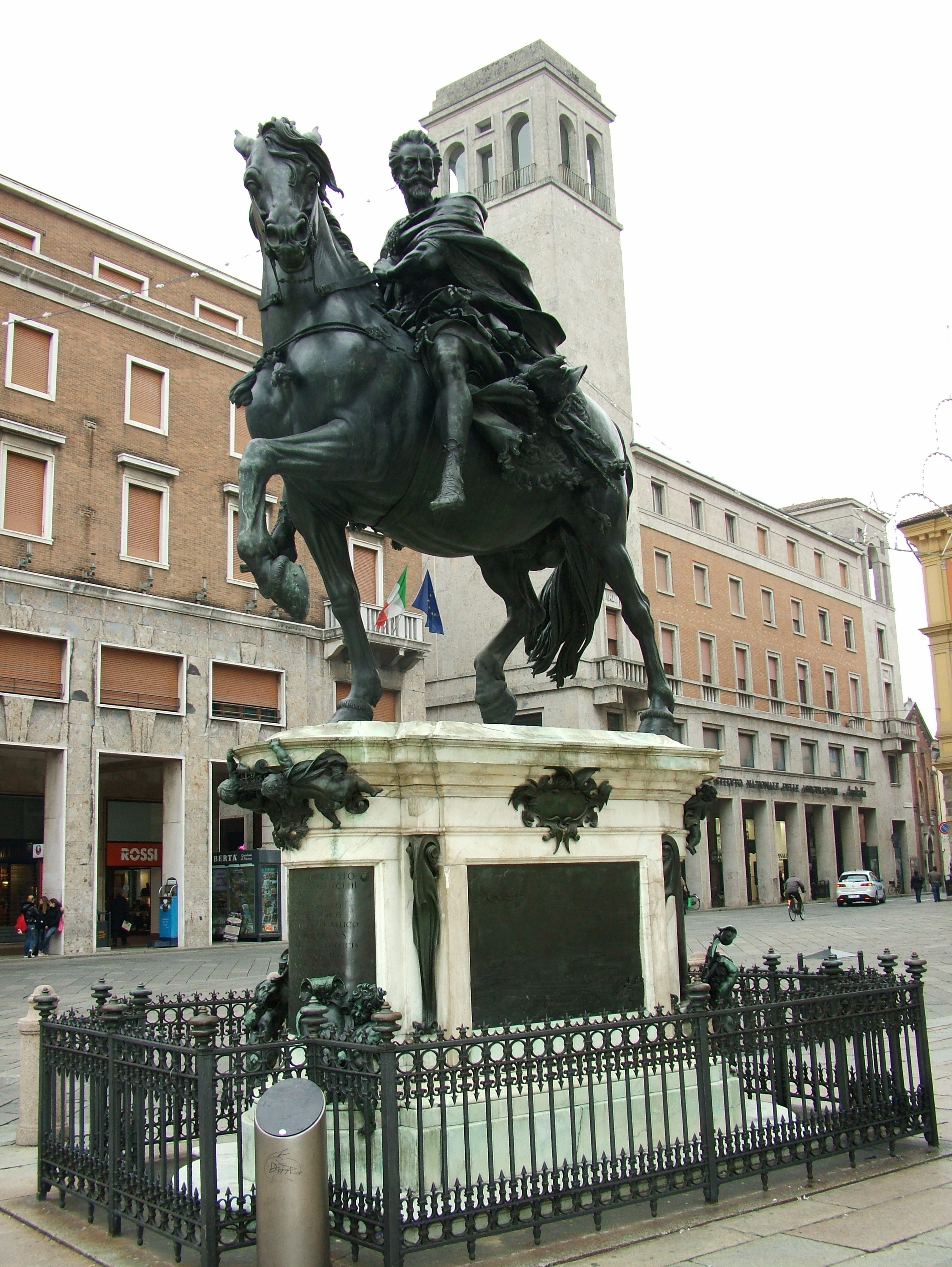 Bronze monument to Alessandro Farnese by Francesco Mochi between 1622 and 1625, Piazza Cavalli, Piacenza, Italy.